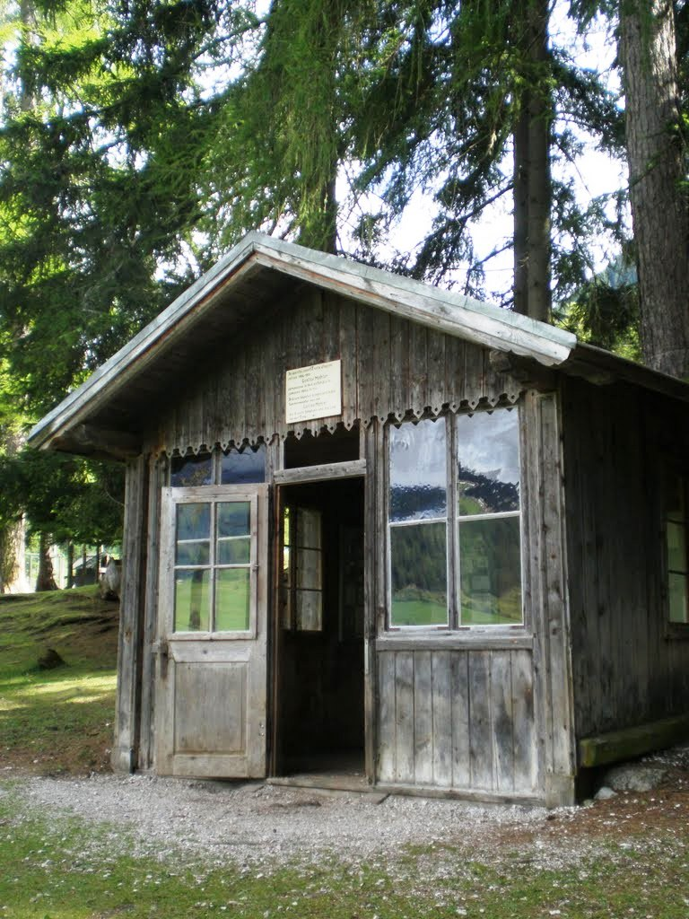 La casetta di Gustav Mahler nei pressi di Dobbiaco, Alto Adige.